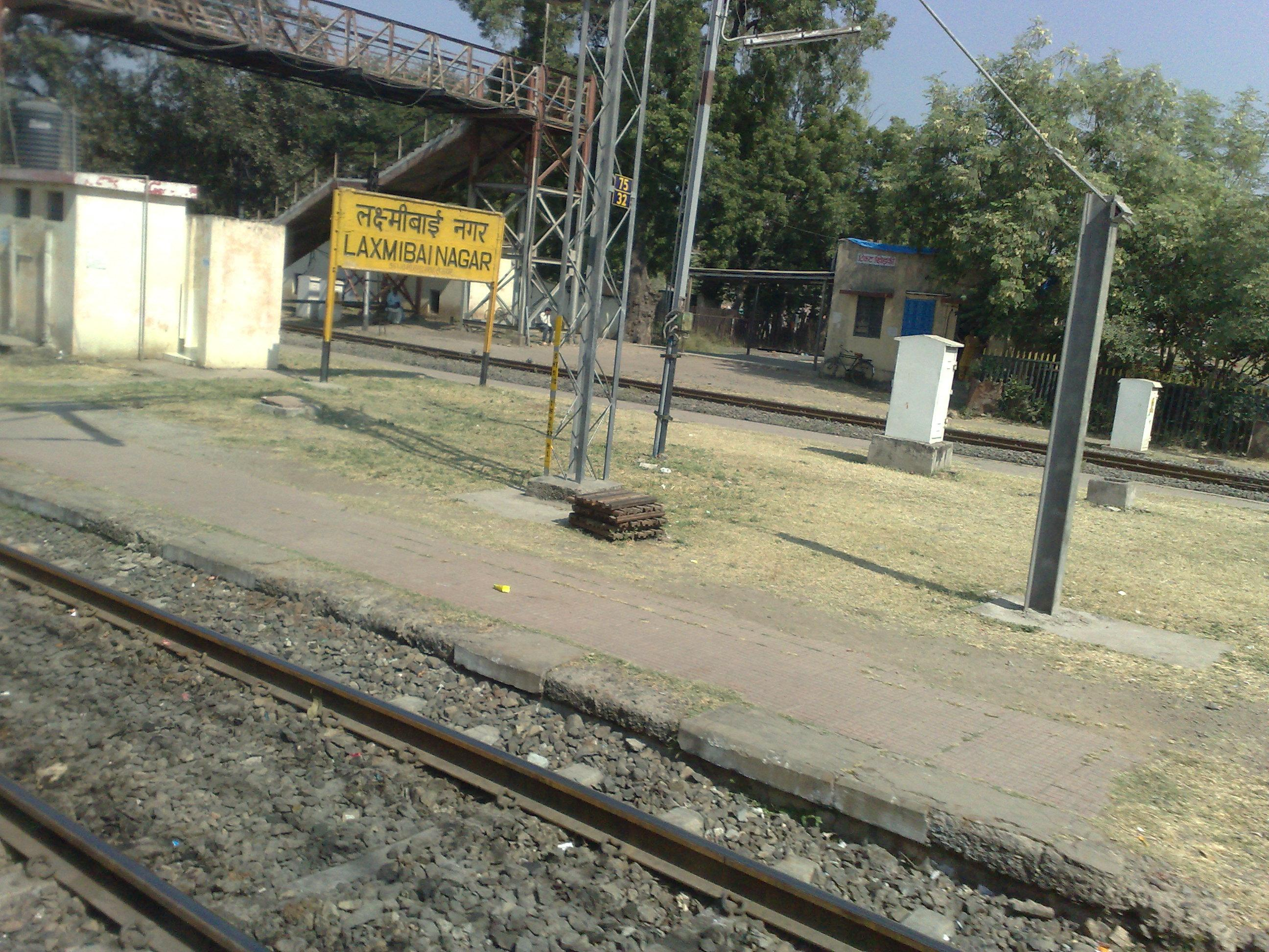 Laxmibai Nagar